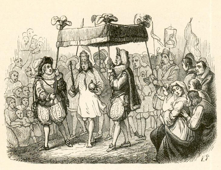 Ilustration of "The Emperor's New Clothes."